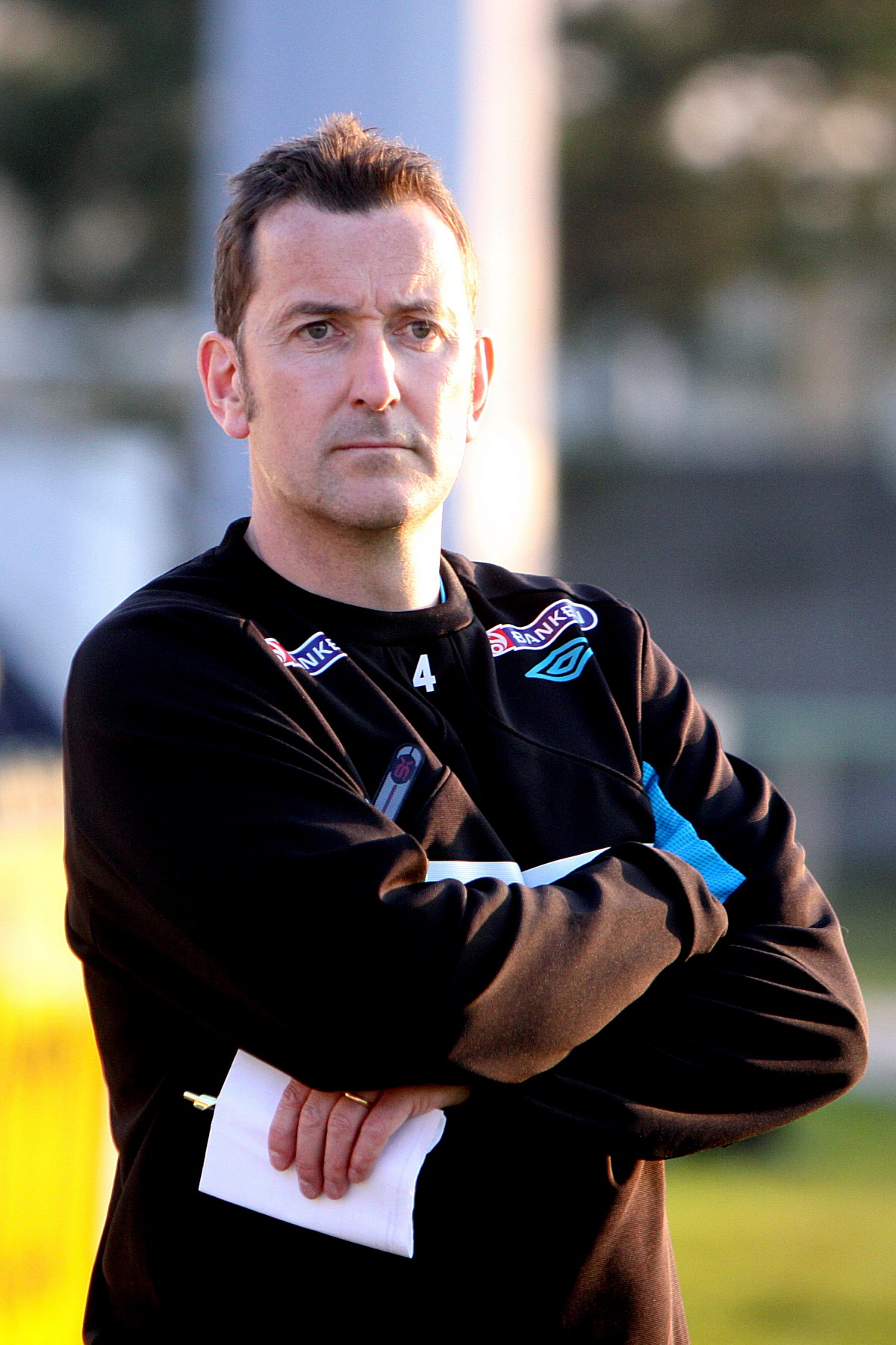 Per Joar Hansen, Coach of the Norway national under-21 football team (2011-03-29)